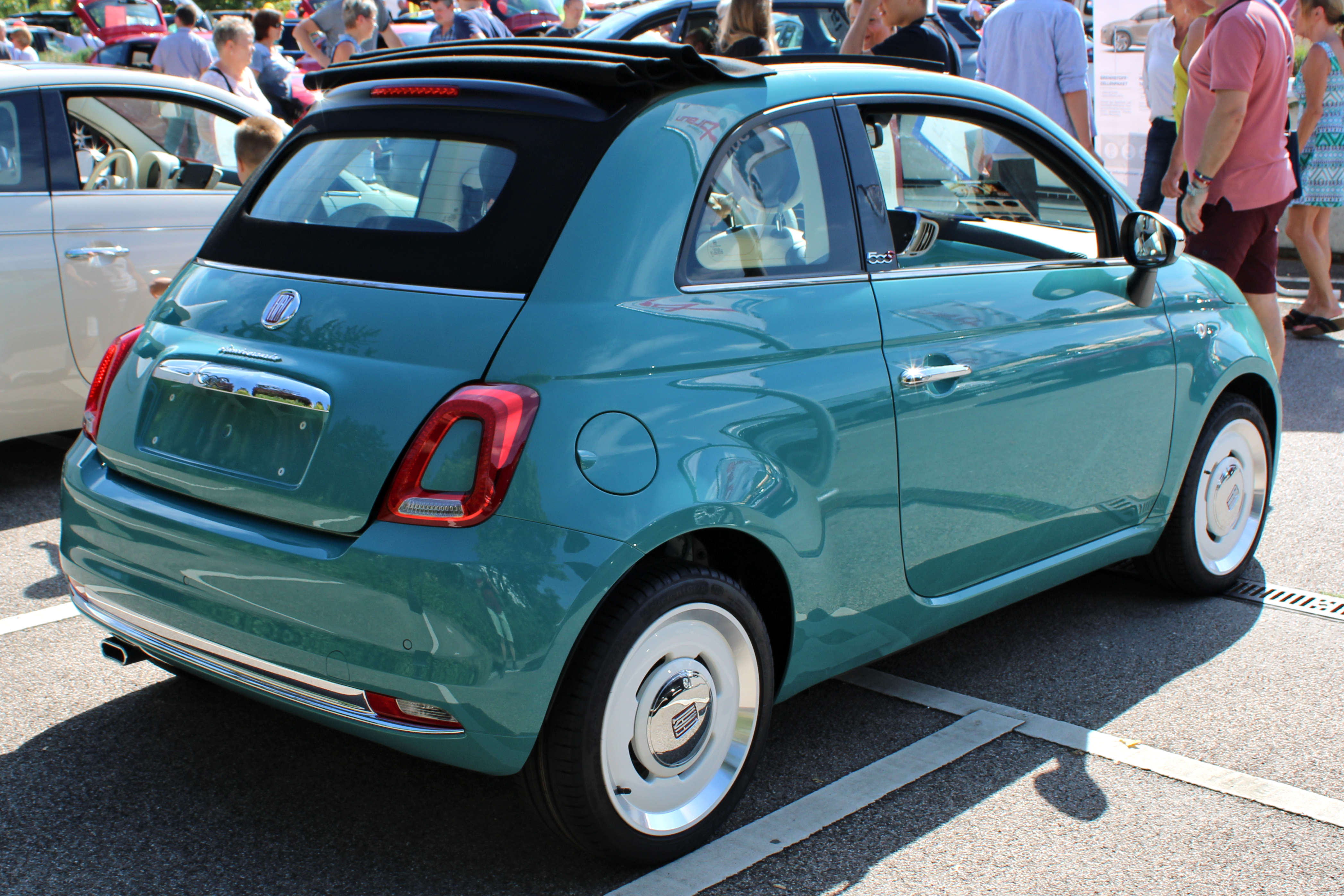 Fiat 500C Anniversario